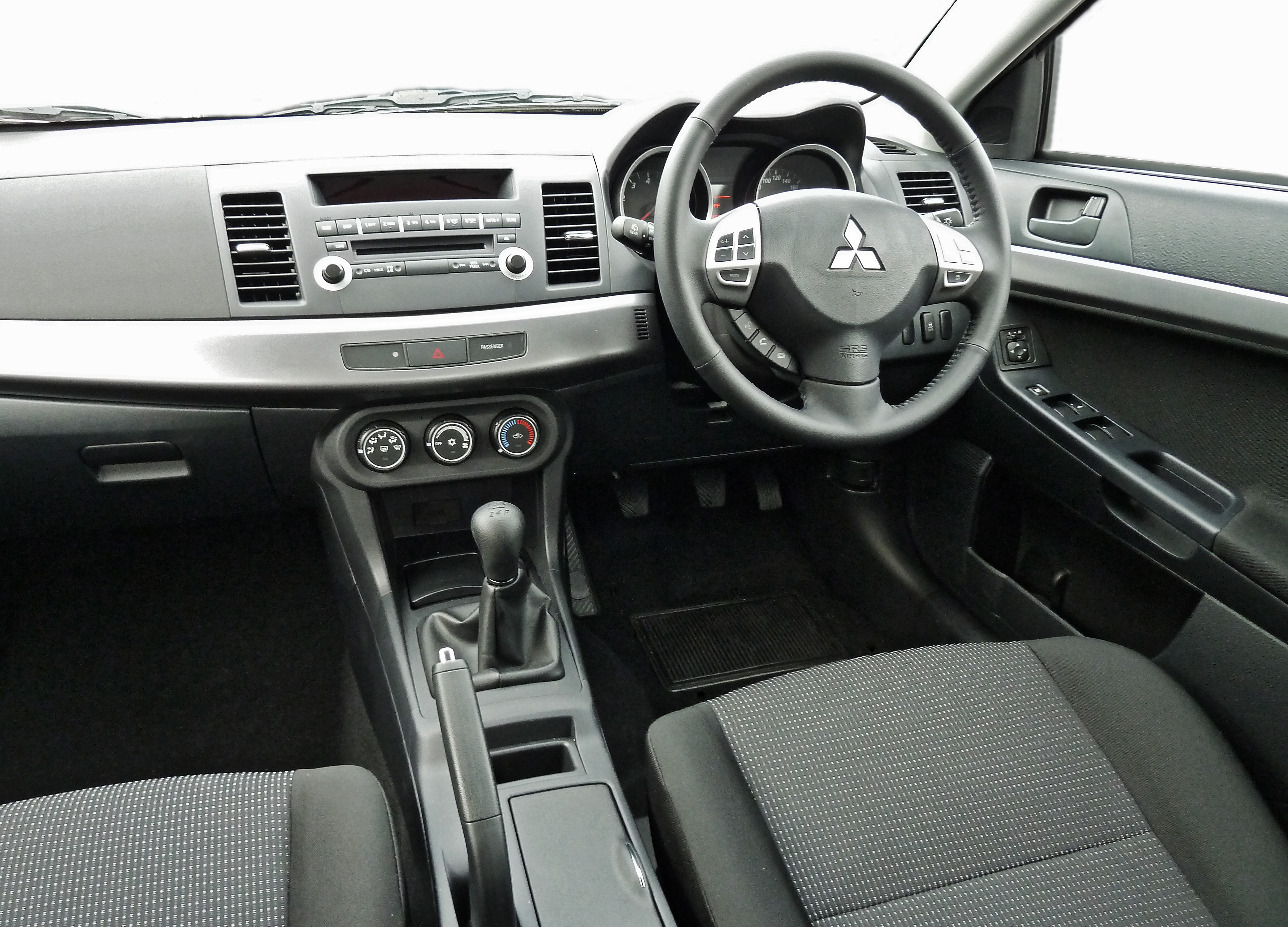 2011 Mitsubishi Lancer (CJ MY11) SX Sportback hatchback. Photographed at Tynan Mitsubishi, Kirrawee, New South Wales, Australia.